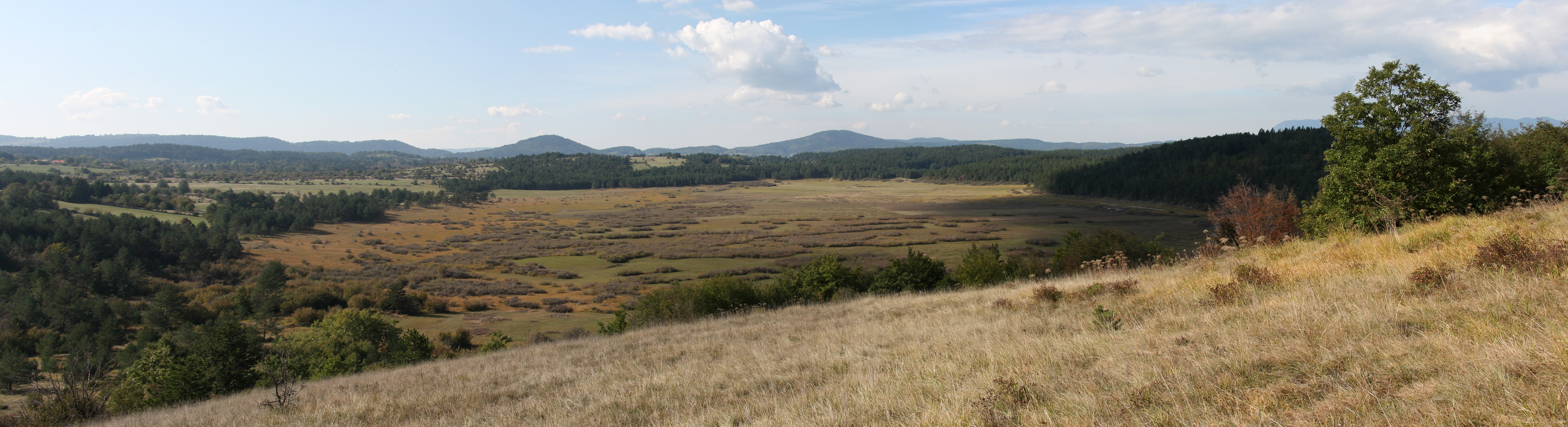 Panorama of intermittent Lake Palčje in autumn, when it's empty.